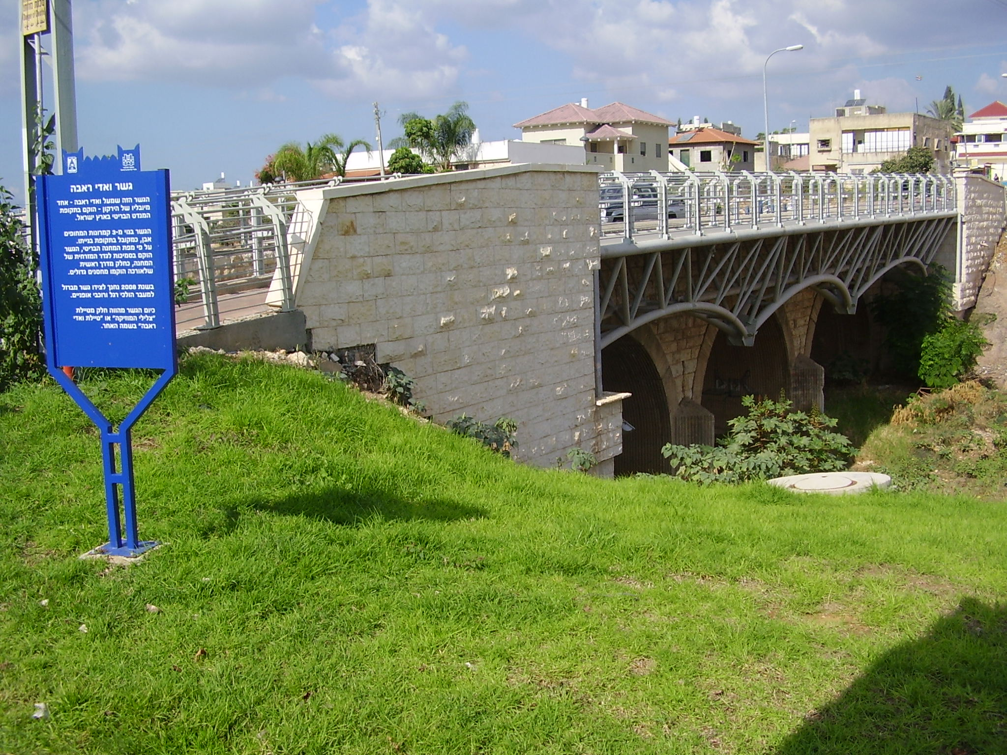 Wadi Raba bridge in Rosh Ha'ayin